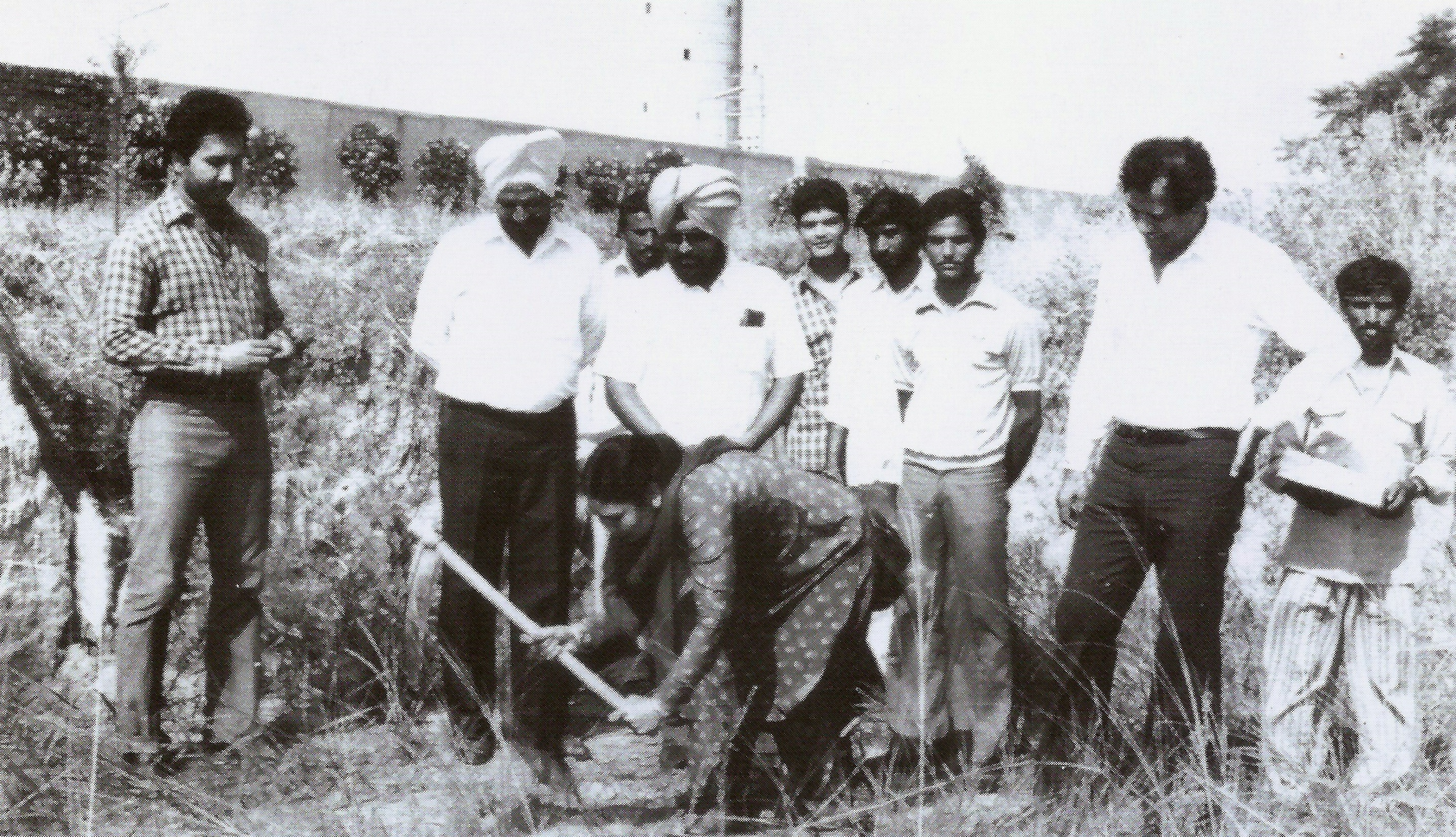 The foundation stone of Dara Studio being laid in Mohali by Surjit Kaur Randhawa in the presence of Shri Dara Singh, Ratan Aulakh, Architect and staff.